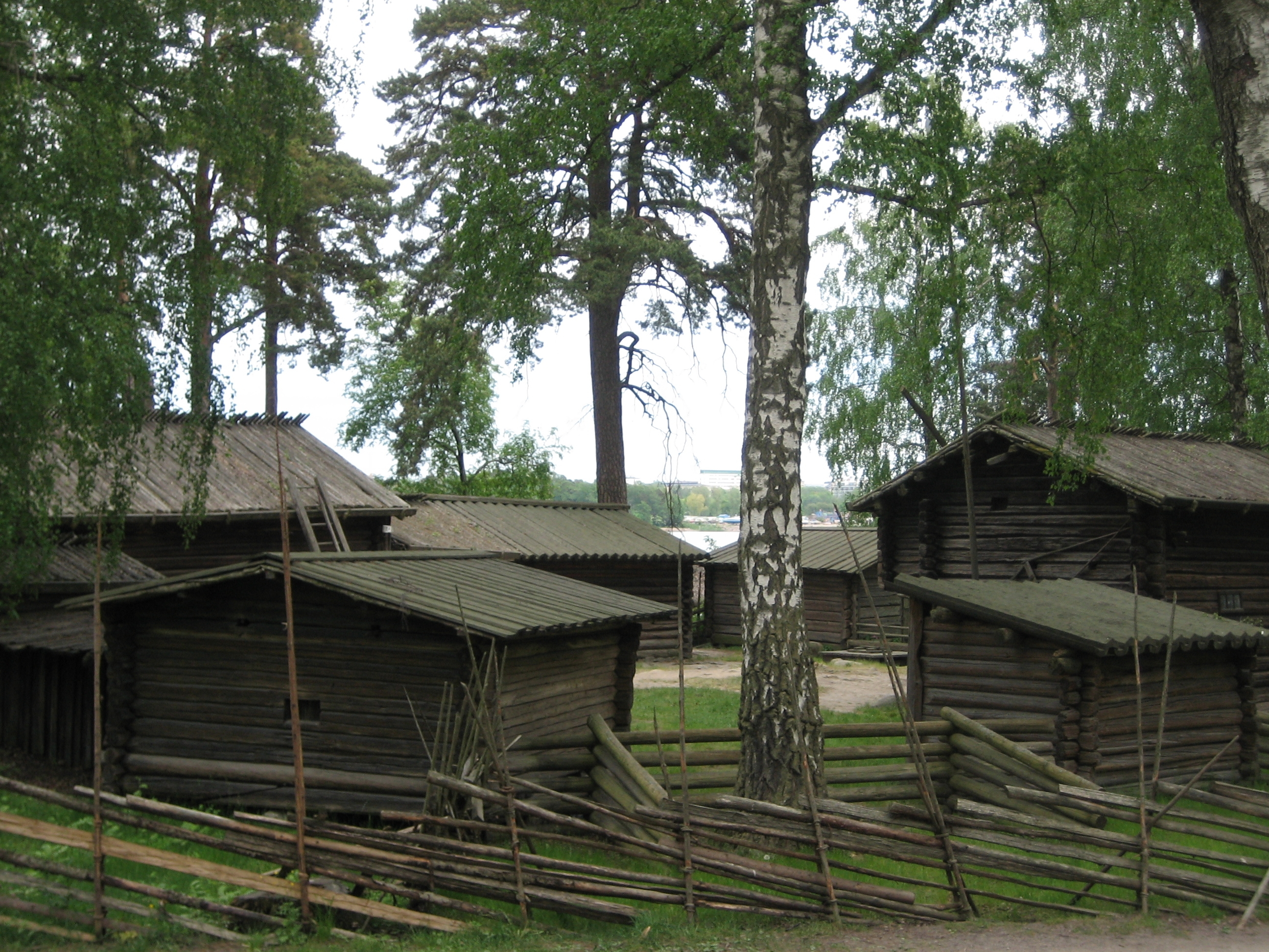 The Niemelä tenant farm (in Finnish: Niemelän torppa) has been transferred to the Seurasaari Open-Air Museum (Helsinki, Finland) from Konginkangas in the Central Finland.